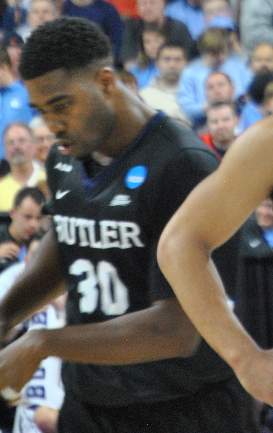 Malcolm Brogdon at the Free Throw line for the Cavaliers